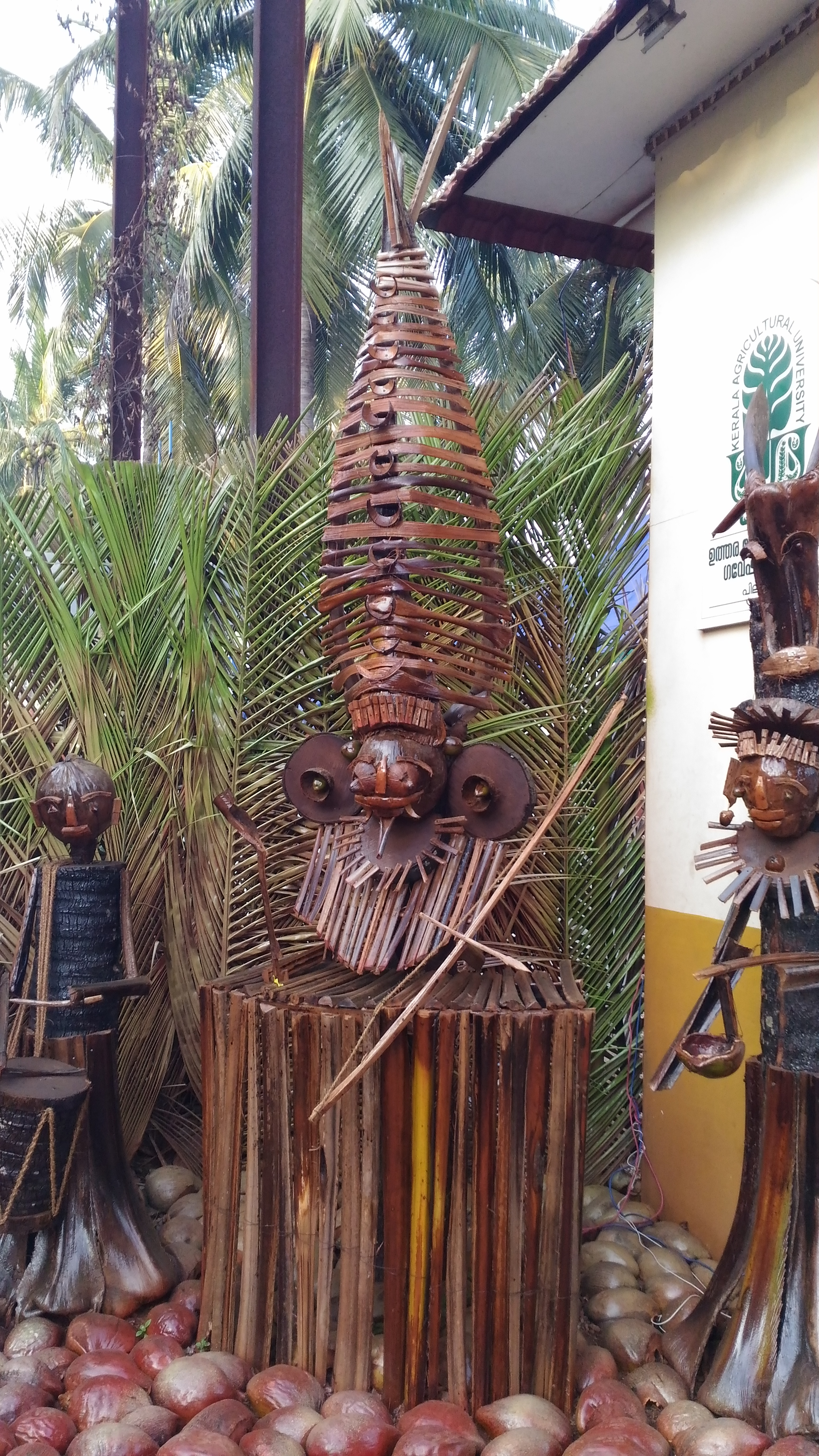 An art made of the parts of coconut palm.